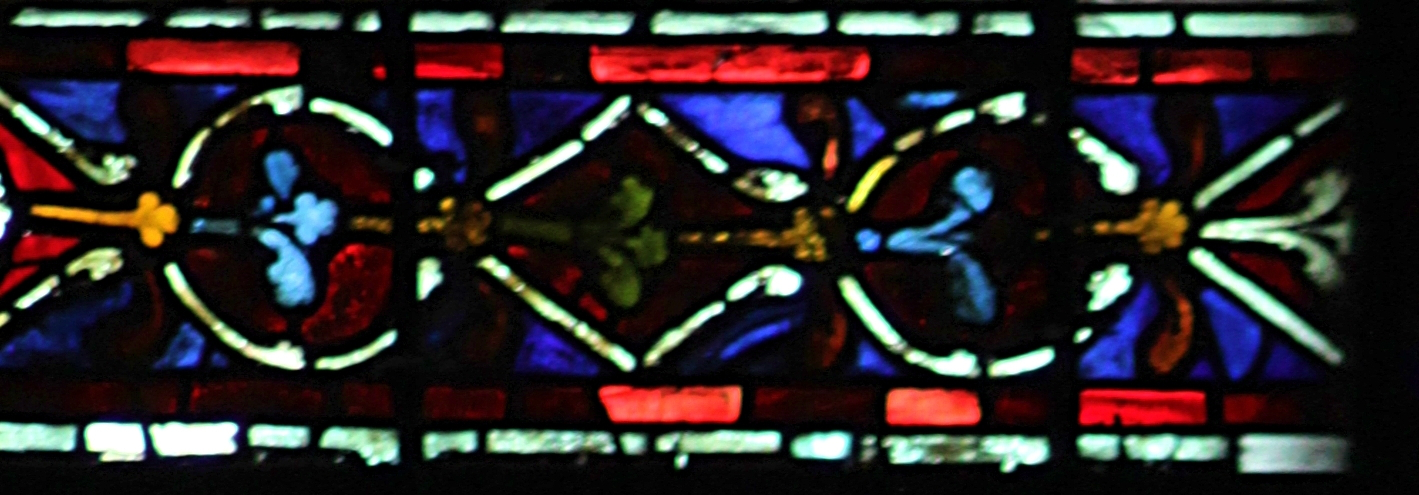 Stained window in Chartres cathedral - fragment.